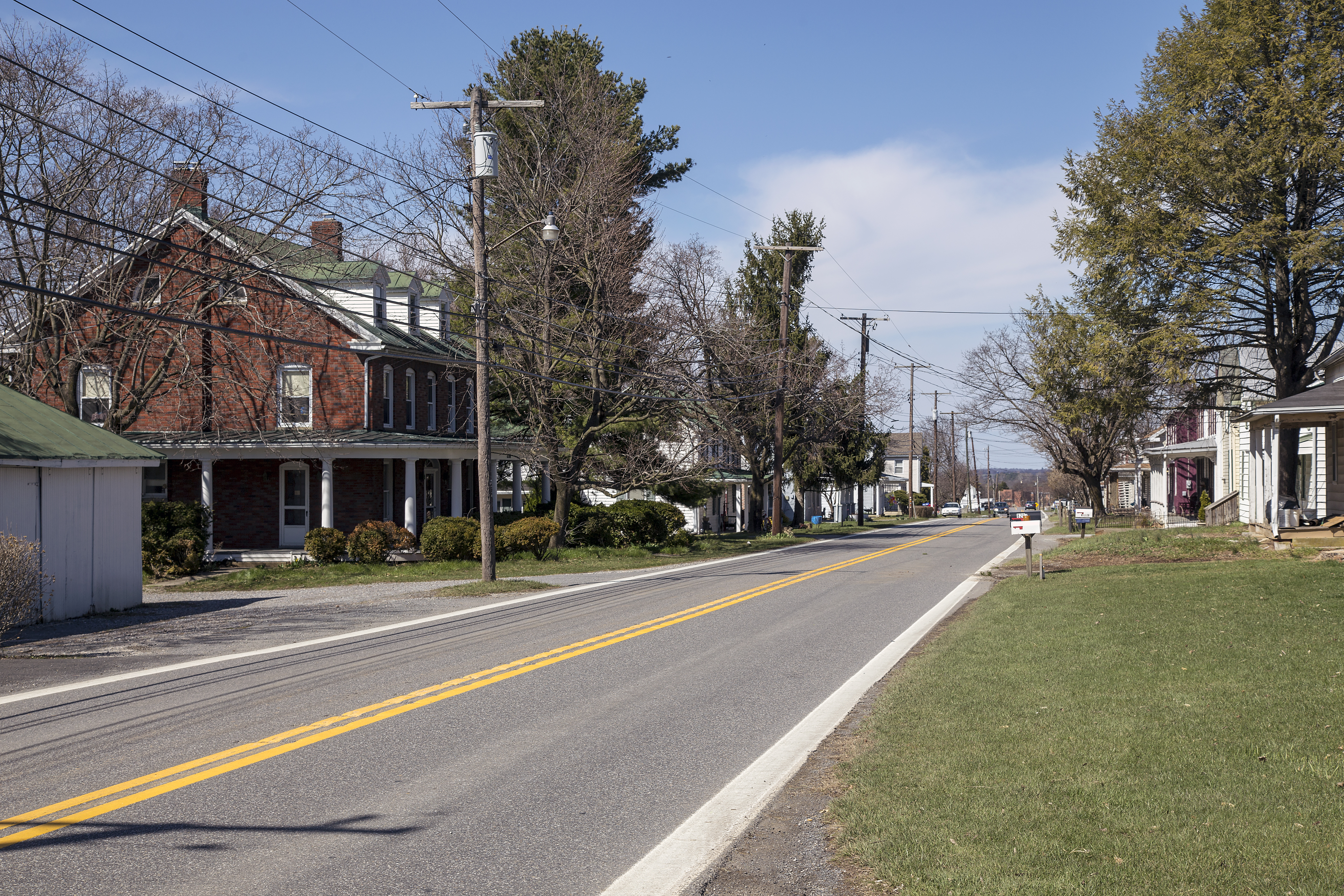 Boonsboro Pike looking north, Mapleville, Maryland, USA